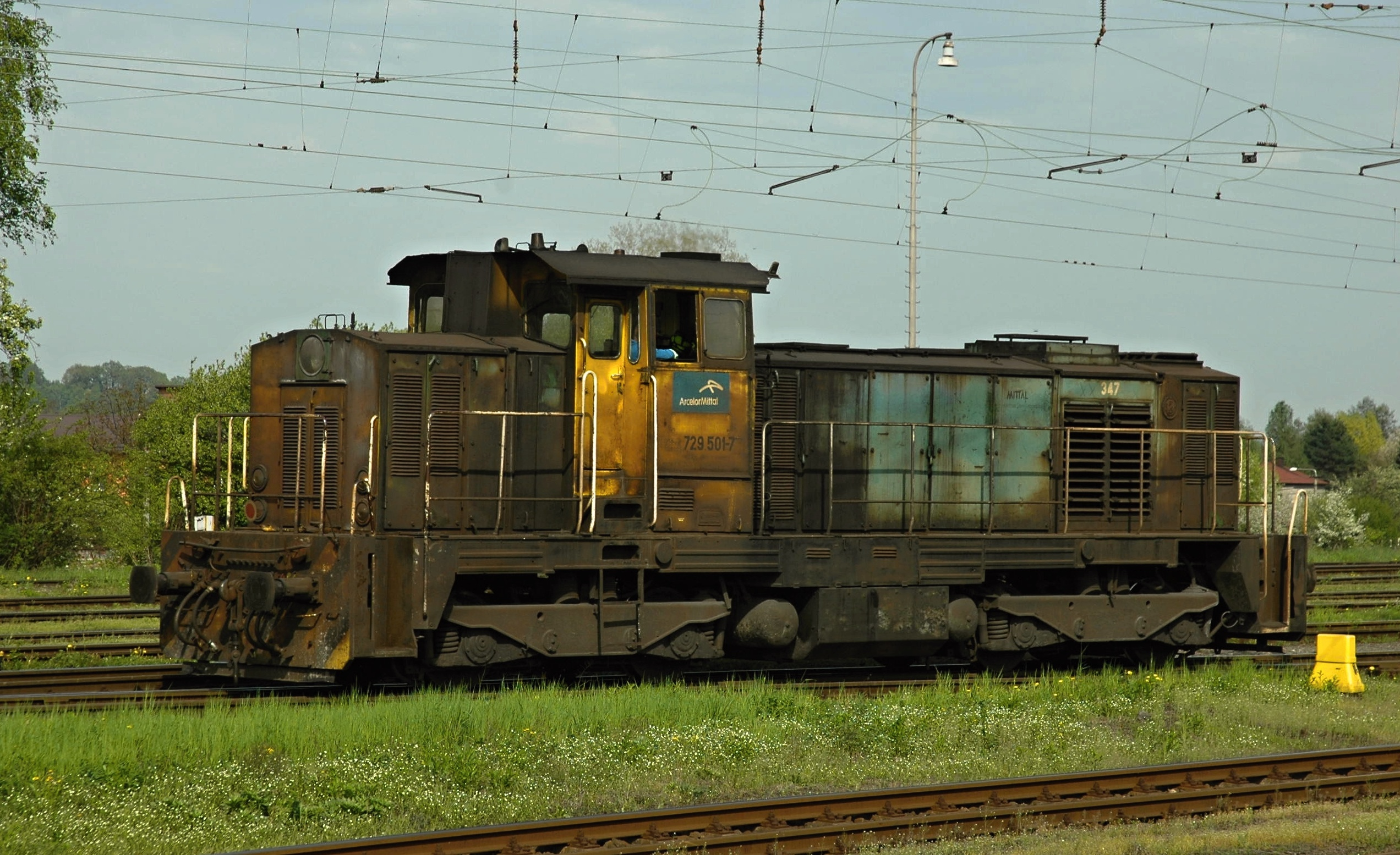 Locomotive 729.501 of ArcelorMittal Ostrava